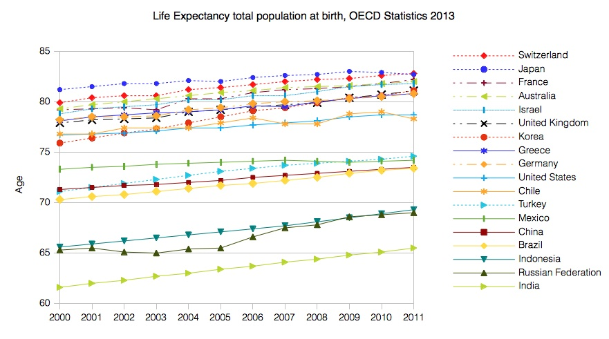 Diagram about Life Expectancy of the total population at birth from 2000 until 2011 in Switzerland compared to several other nations. Data source: OECD's iLibrary, retrieved 2013-11-22[1]